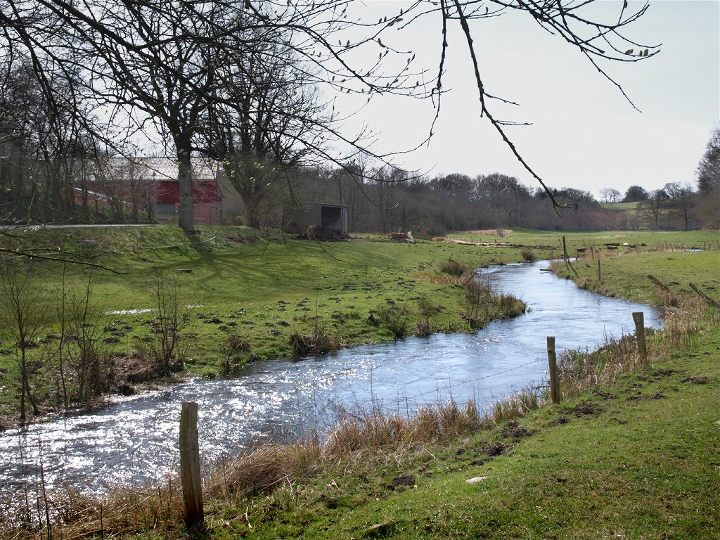 Slesvic-Holstein(Germany),Slesvic-Holstein ,river Eider, photo 2008